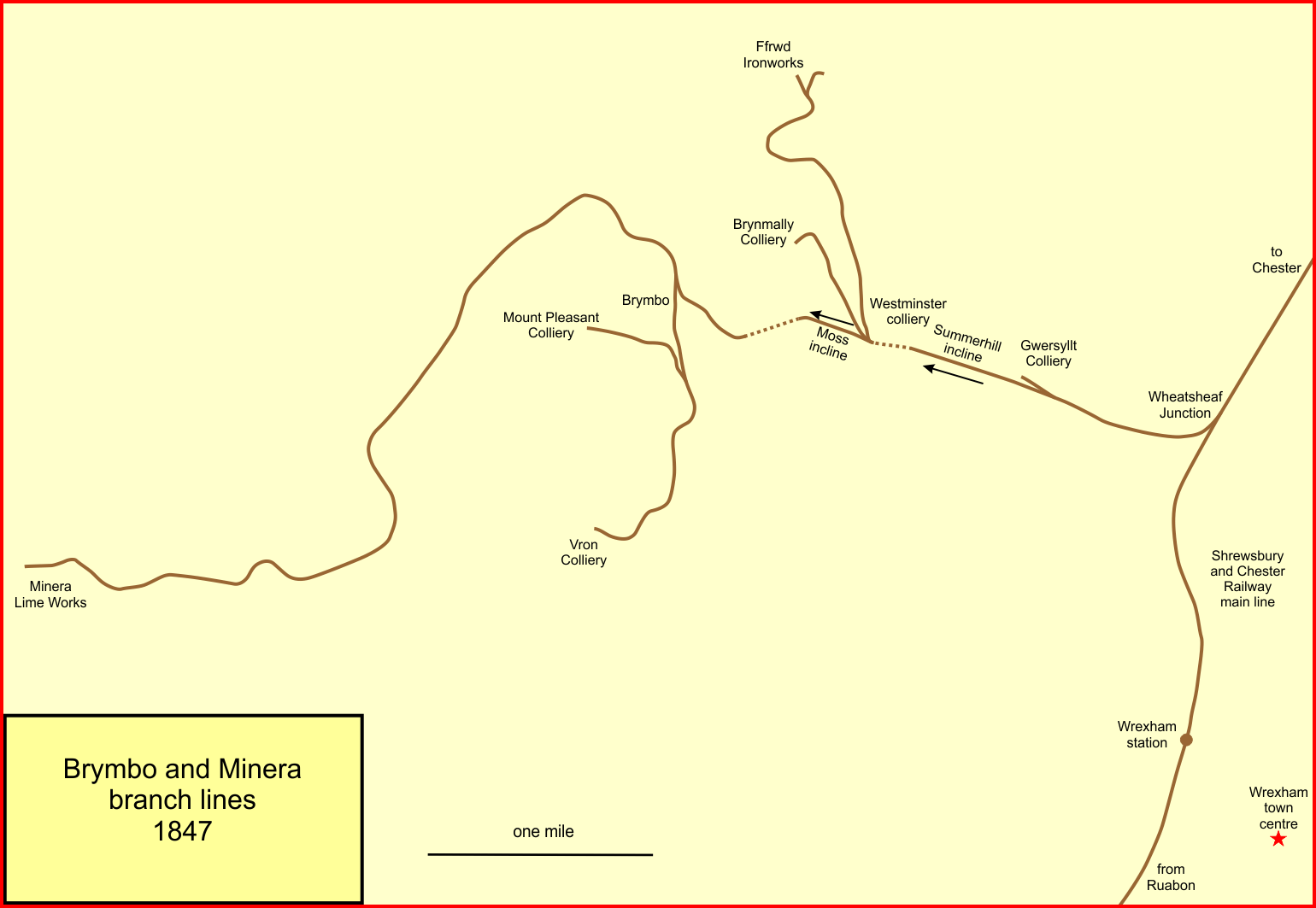 System map of the Railway lines around Brymbo, Wales, in 1847